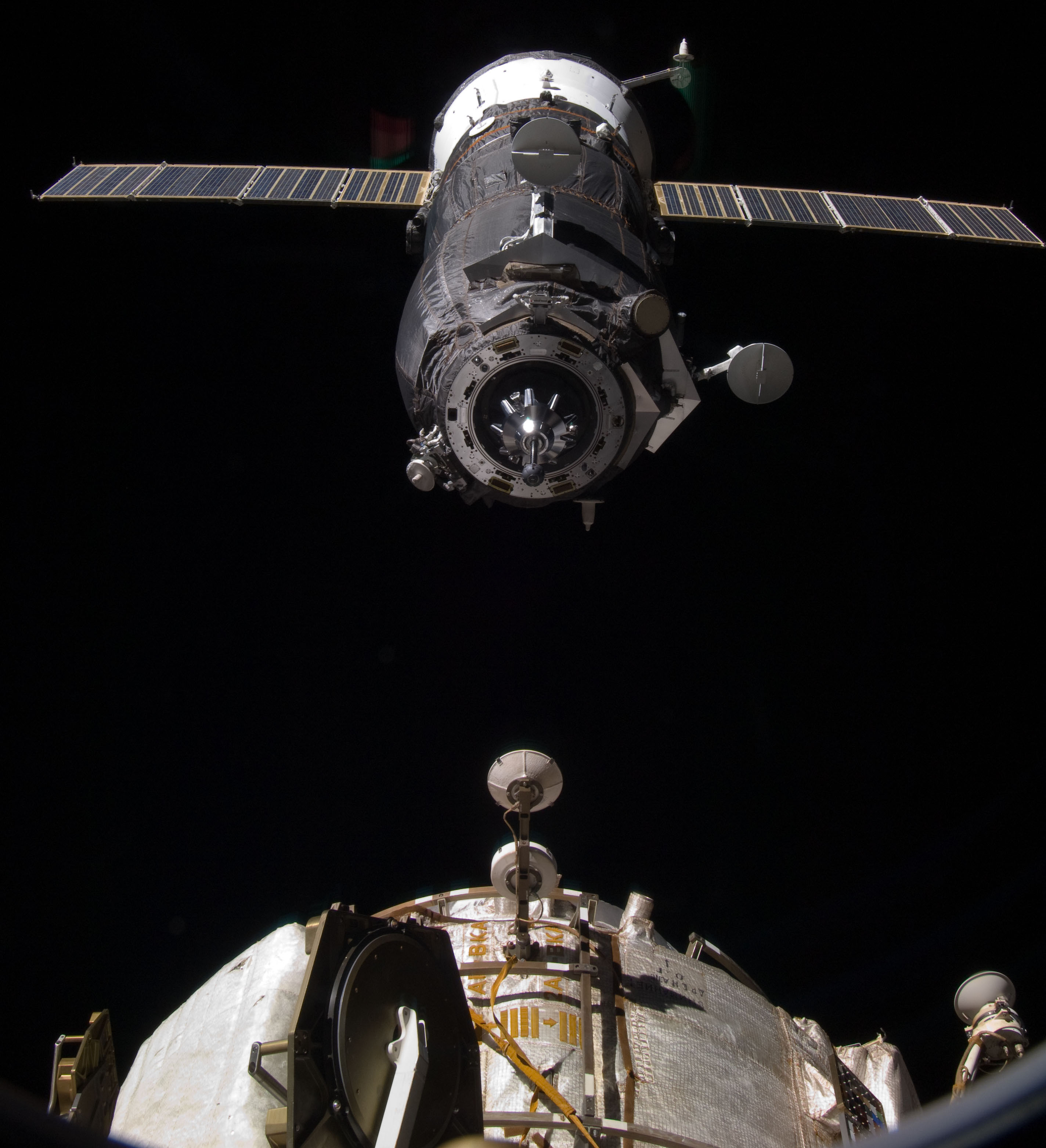 ISS029-E-036167 (2 Nov. 2011) --- An unpiloted ISS Progress resupply vehicle approaches the International Space Station, carrying 1,653 pounds of propellant, 110 pounds of oxygen, 926 pounds of water and 3,108 pounds of maintenance gear, spare parts, experiment hardware and resupply items for the residents of the space station. Progress 45 docked to the station's Pirs docking compartment at 7:41 a.m. (EDT) on Nov. 2, 2011.